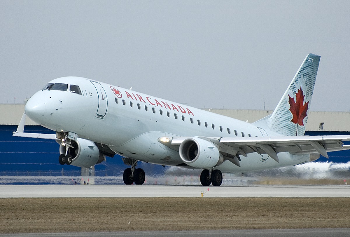 Air Canada (C-FEJF) E-175 departs Montréal-Pierre Elliott Trudeau International Airport.